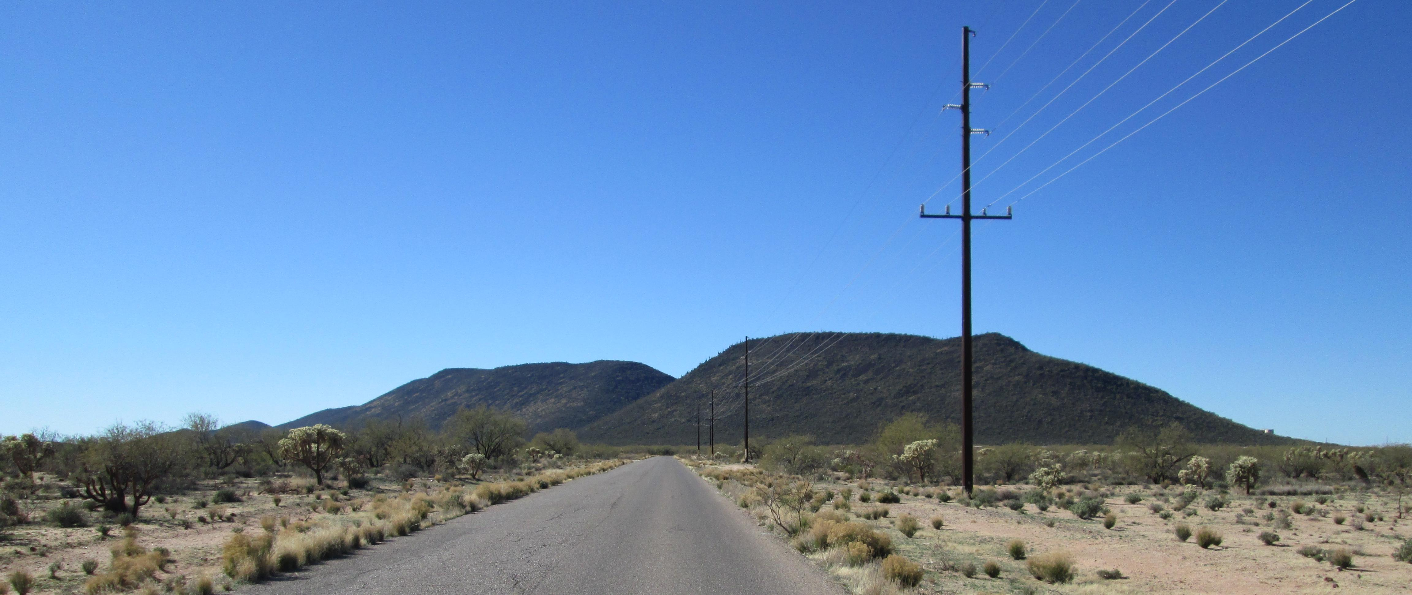 View of Black Mountain, in Pima County, Arizona, from the east on West Campus Drive. February 9, 2014.